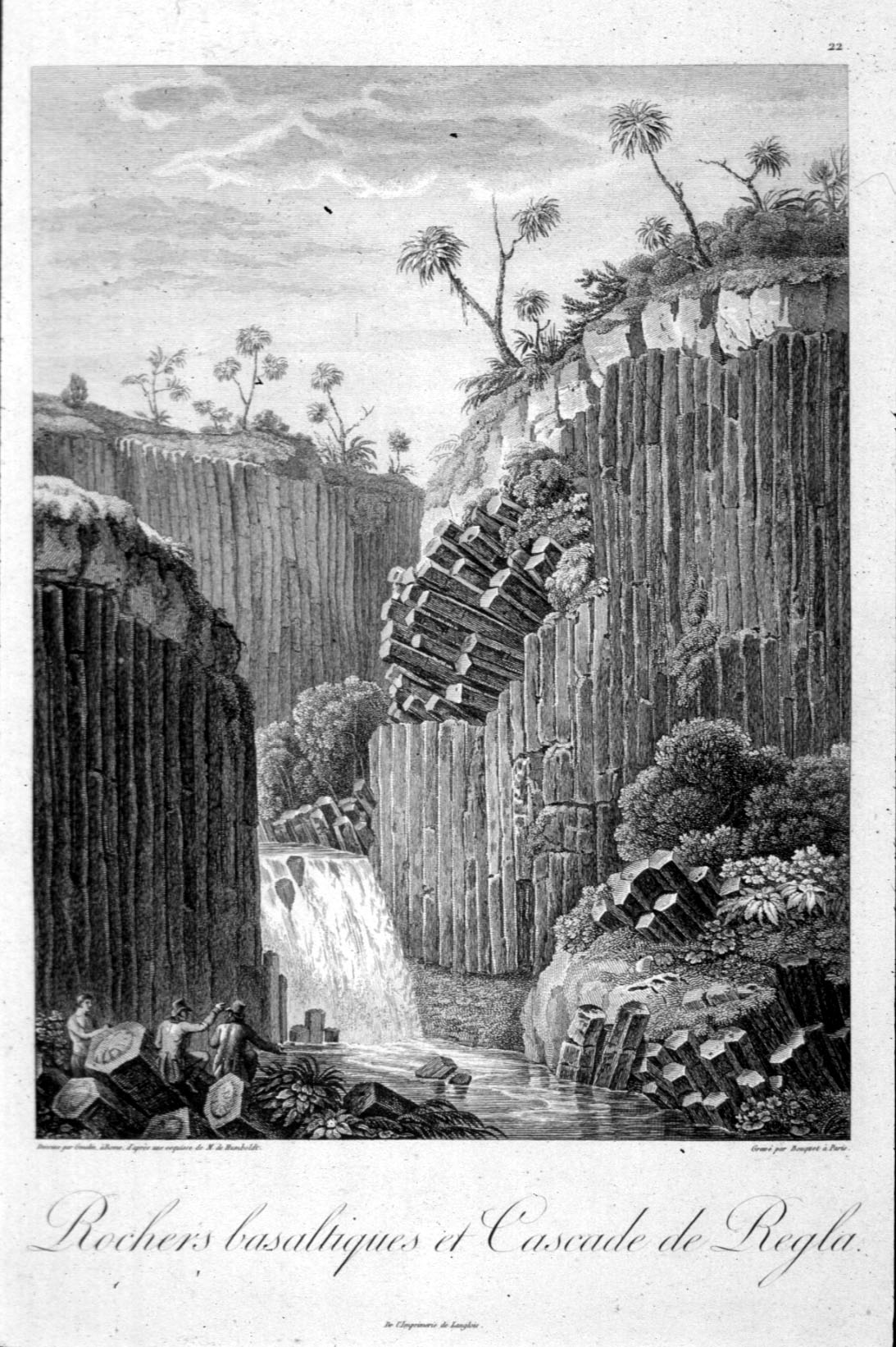 Title: Vues des Cordillères, et monumens des peuples indigènes de l'Amérique Year: 1813 (1810s) Authors: Humboldt, Alexander von, 1769-1859 Schoell, Frédéric, 1766-1833, publisher Stone, John Hurford, 1763-1818, printer Bouquet, Louis, 1765-1814, engraver Gmelin, Wilhelm Friedrich, 1760-1820, engraver Humboldt, Alexander von, 1769-1859. Voyage aux régions équinoxiales du nouveau continent Subjects: Indians of Mexico Indians of South America Montañas Montañas Indios Publisher: A Paris : Chez F. Schoell, rue des Fossés-Saint-Germain-l'Auxerrois, no. 29 Text Appearing Before Image: ustré se développe sous linfluence des chaleurs équatoriales. Lorsquà lafin dune longue navigation, après avoir passé dun hémisphère à lautie,lhabitant du nord aborde à une côte lointaine, il est surpris de trouver, aumilieu d une foule de productions inconnues, ces strates daidoise, de schistemicacé et de porphyre trapéen, qui forment les côtes arides de lanciencontinent baignées par lOcéan glacial. Sous tous les climats, la crofitepierreuse du globe présente le même aspect au voyageur; partout il reconnoît,et non sans une certaine émotion, au milieu dun nouveau monde, les rocliesde son pays natal. Cette analogie que piésente la nature non oiganiqvie sétend jusquà cespetits phénomènes que lon seroit tenté dattiibuer à des causes purementlocales. Dans les Cordillères, comme dans les montagnes de lEurope, !egranité offre quelquefois des agrégations en forme de sphéroïdes aplatis etdivisés en couches concentriques : sous les tropiques, comme dans la zone Text Appearing After Image: '